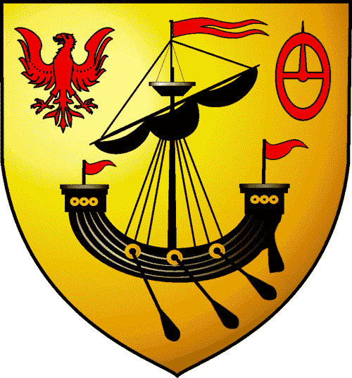 MacIain of Ardnamurchan CoA